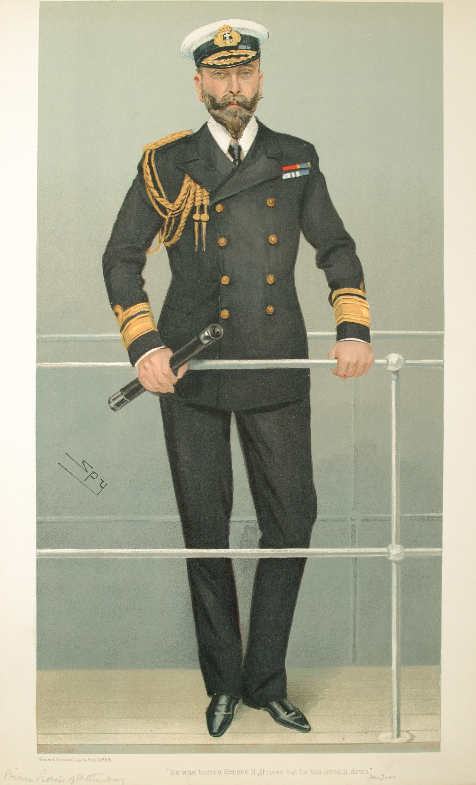 Caricature of Prince Louis of Battenberg. Men of the Day No.0951. Caption reads: "He was born a Serene Highness but has lived it down".